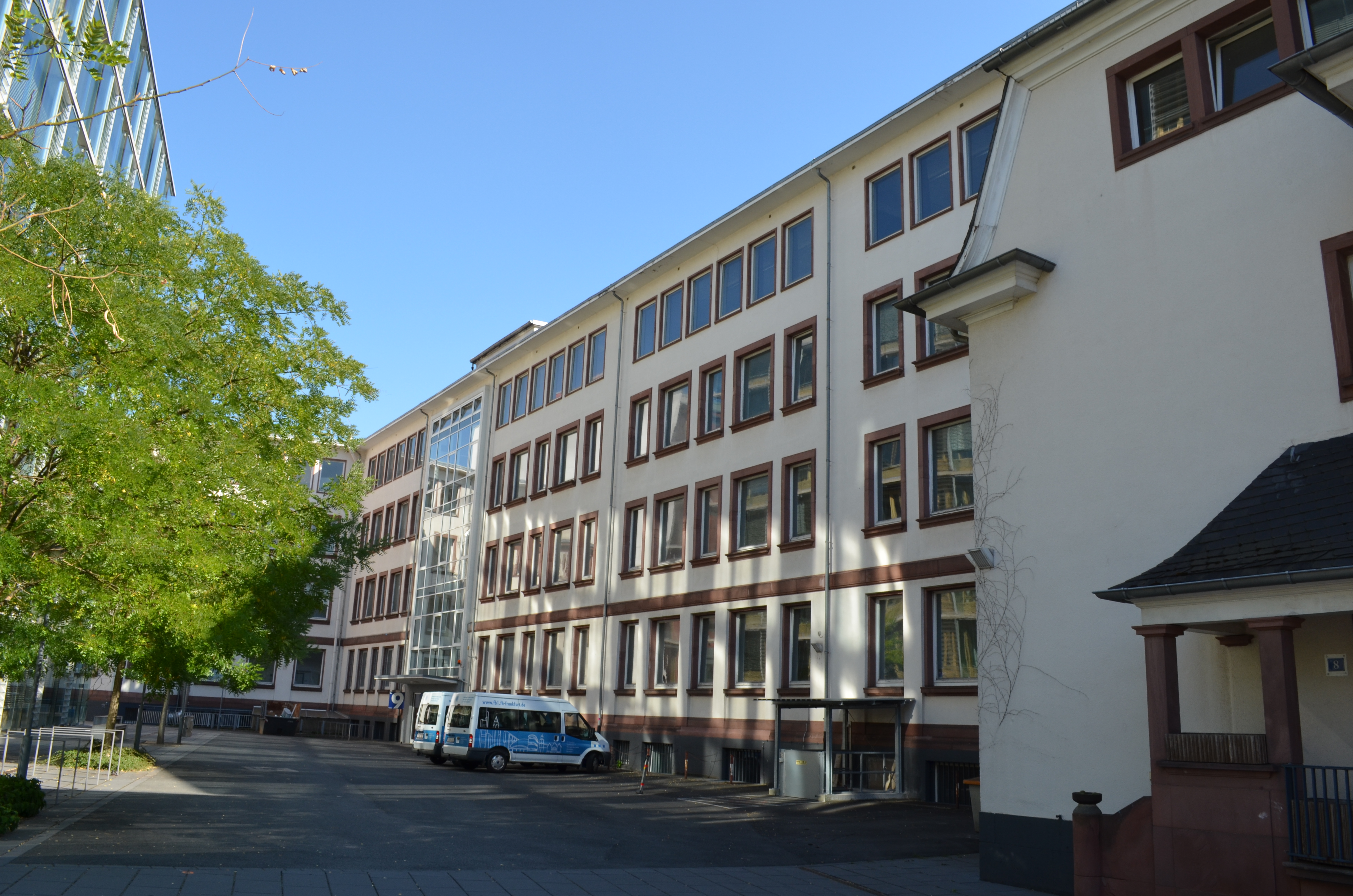 Fachhochschule Frankfurt am Main (FH FFM) - University of Applied Sciences: Building 9, seen from the campus-side.